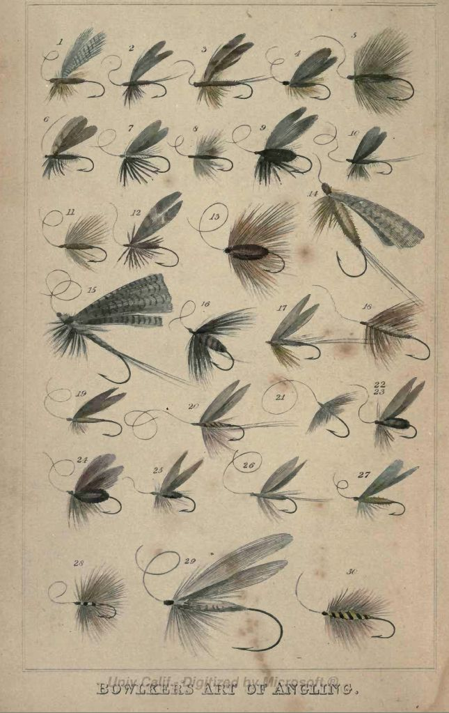 Frontpiece plate of artificial flies from Bowlker's Art of Angling (1854) Key to flies: No. 1. Red Fly. 2. Blue Dun. 3. March Brown. 4. Cowdung Fly. 5. Stone Fly. 6. Granam, or Green Tail. 7. Spider Fly. 8. Black Gnat. 9. Black Caterpillar. 10. Little Iron Blue. 11. Yellow Sally. 12. Canon, or Down Hill Fly. 13. Shorn Fly, or Maiiow Buzz. 14. Yellow May Fly, or Cadow. 15. Grey Drake. 16. Orl Fly. 17. Sky Blue. 18. Cadis Fly. 19. Fern Fly, 20. Red Spinner. 21. Blue Gnat. 22 & 23. Large Red and Black Ant 24. Hazel Fly, or Welshman's Button. 25. Little Red and Black Ants. 26. Whirling Blue. 27. Little Pale Blue. 28. Willow Fly. 29. White Moth. 30. Red Palmer.